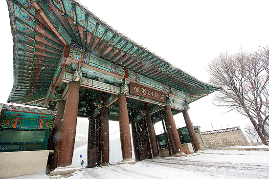 The front gate to the university.